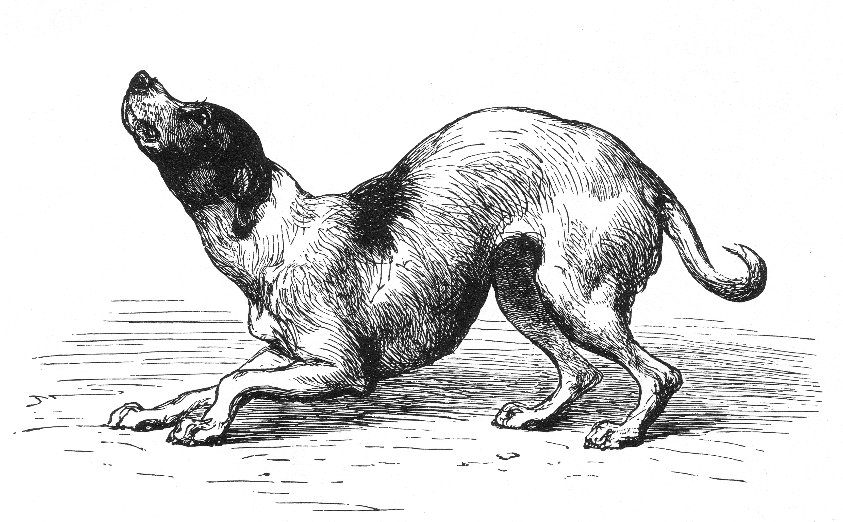 Figure 6 from Charles Darwin's The Expression of the Emotions in Man and Animals. Caption reads "FIG. 6.—The same in a humble and affectionate frame of mind. By Mr. Riviere." See Image:Expression of the Emotions Figure 5.png, of the same dog.